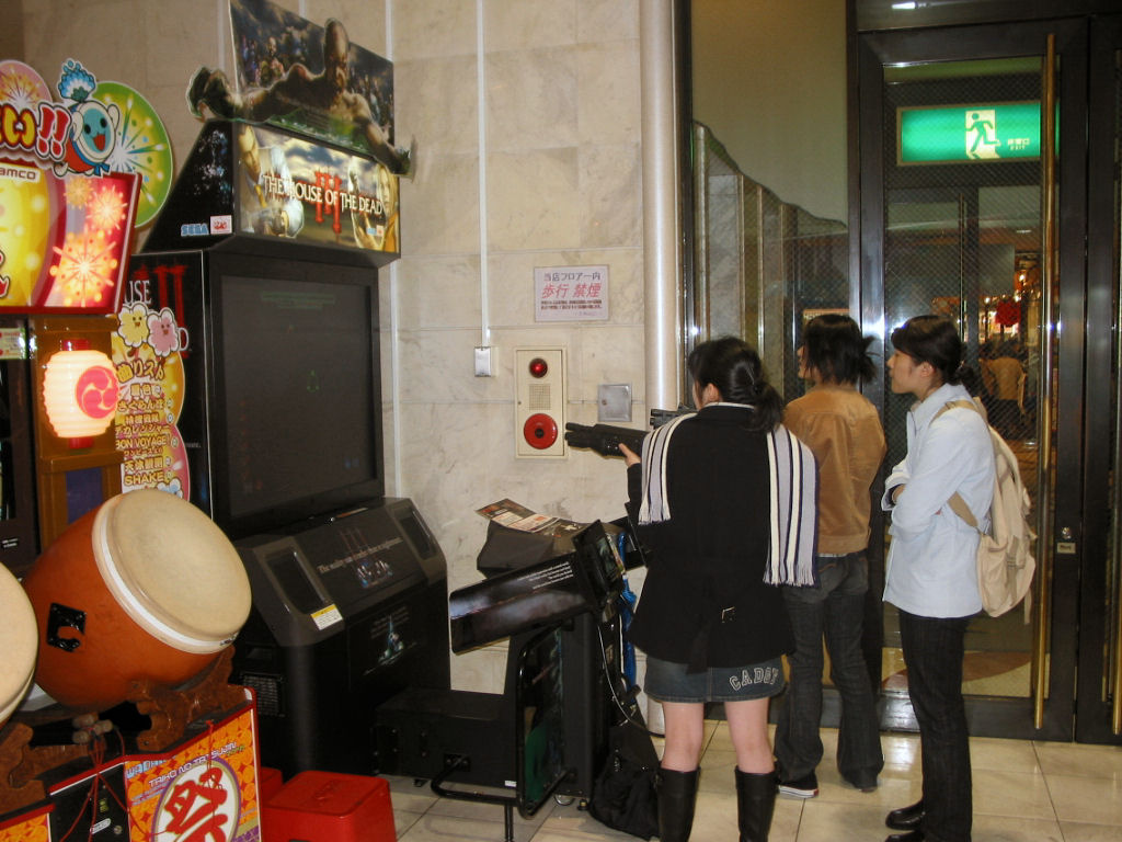 Girls playing video games in local gaming hall in Japan. Taken by Ningyou.